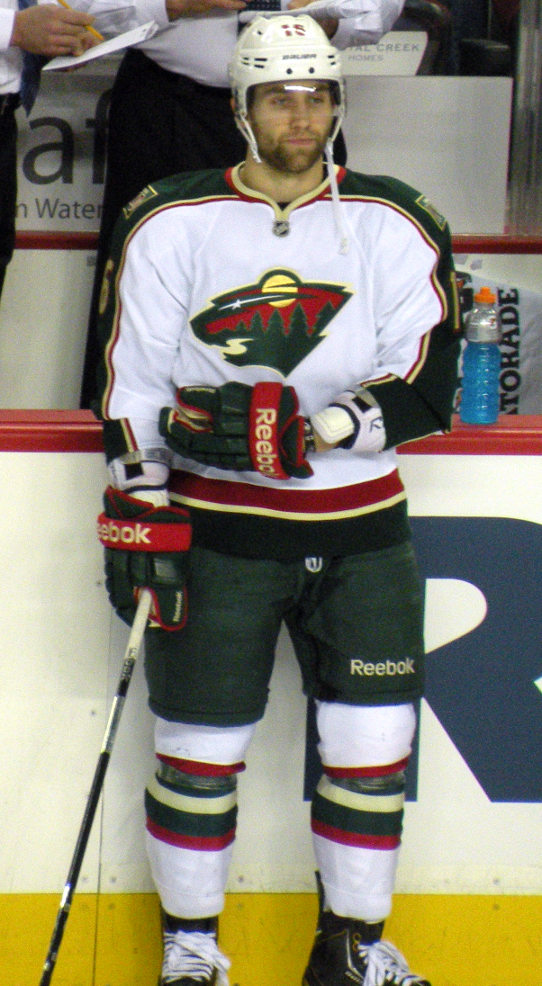 Minnesota Wild forward Jason Zucker prior to a National Hockey League game against the Calgary Flames.